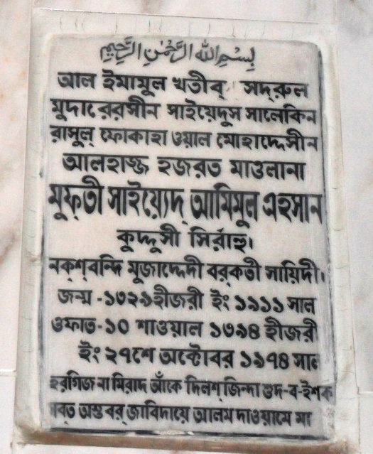 Makbara of Mufti Sayed Muhammad Amimul Ehasan Barkati Bangla